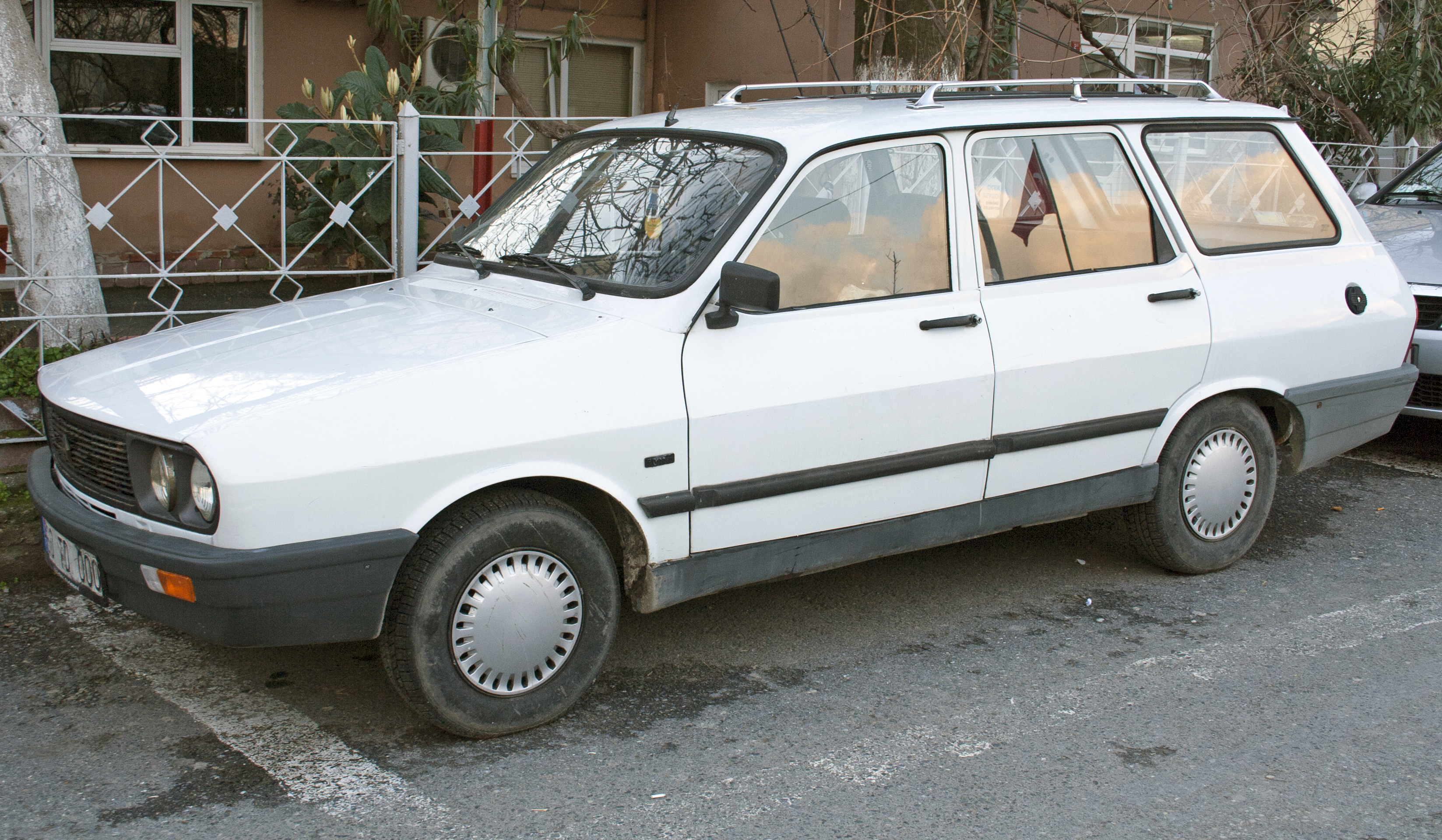 Renault 12 TSW Toros. This facelifted 12 was built in Turkey from 1989 until 2000 and has a carburetted 1.4 litre engine.